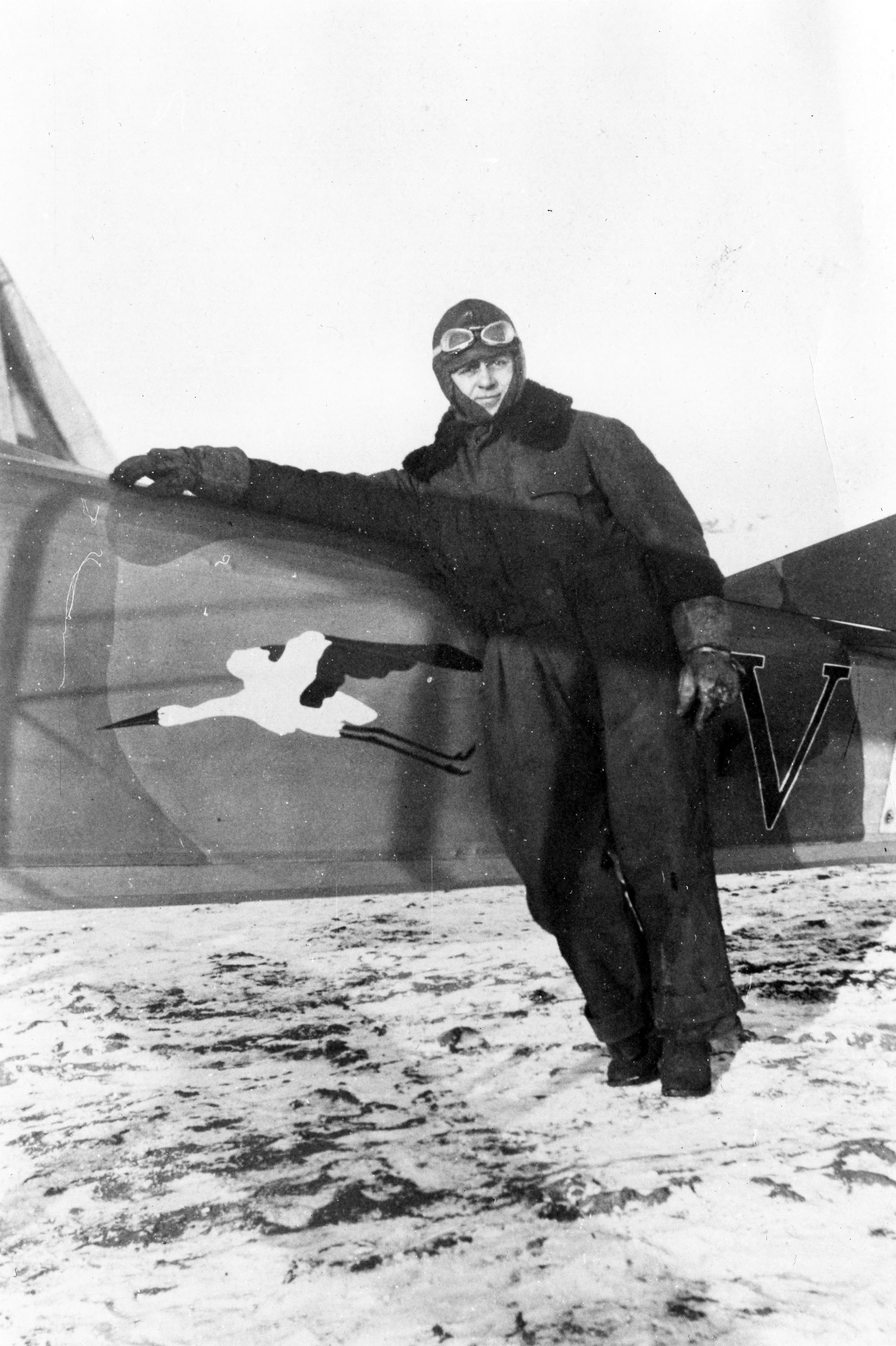 Phelps Collins in front of Spad XII at Beauzée-sur-Aire before leaving the French Escadrille 103 on 7 January 1918. Collins enlisted in the French Service Aéronautique in May 1917 and transferred to the U.S. Air Army Service in January 1918. He was assigned to the American 103rd Aero Squadron with a rank of captain. On 12 March 1918, Collins and four other American pilots were attempting to intercept enemy airplanes in the area of Paris when, for an unknown reason, Collins' aircraft spun and dived into the ground. Captain Phelps Collins of Alpena, Mich., became the first member of the U.S. Air Service to die on a combat mission. (U.S. Air Force photo)